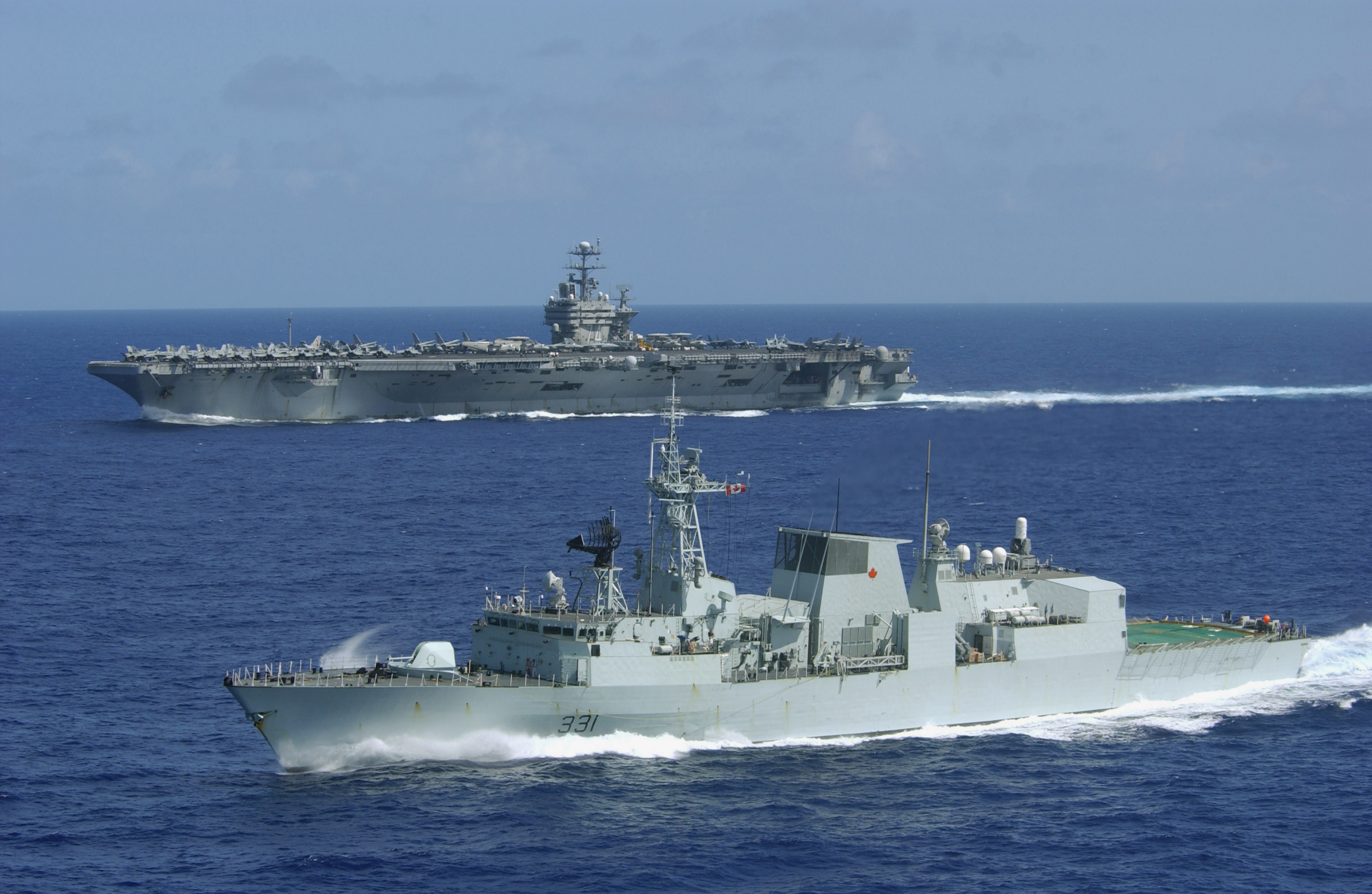 At sea with USS John C. Stennis (CVN 74) May 20, 2002 -- The Canadian frigate HMCS Vancouver (CPF 331) steams along side USS John C. Stennis as ships from the Stennis Battle Group return from deployment in support of Operation Enduring Freedom. U.S. Navy photo by Photographer's Mate Airman Tina R. Lamb. (RELEASED)